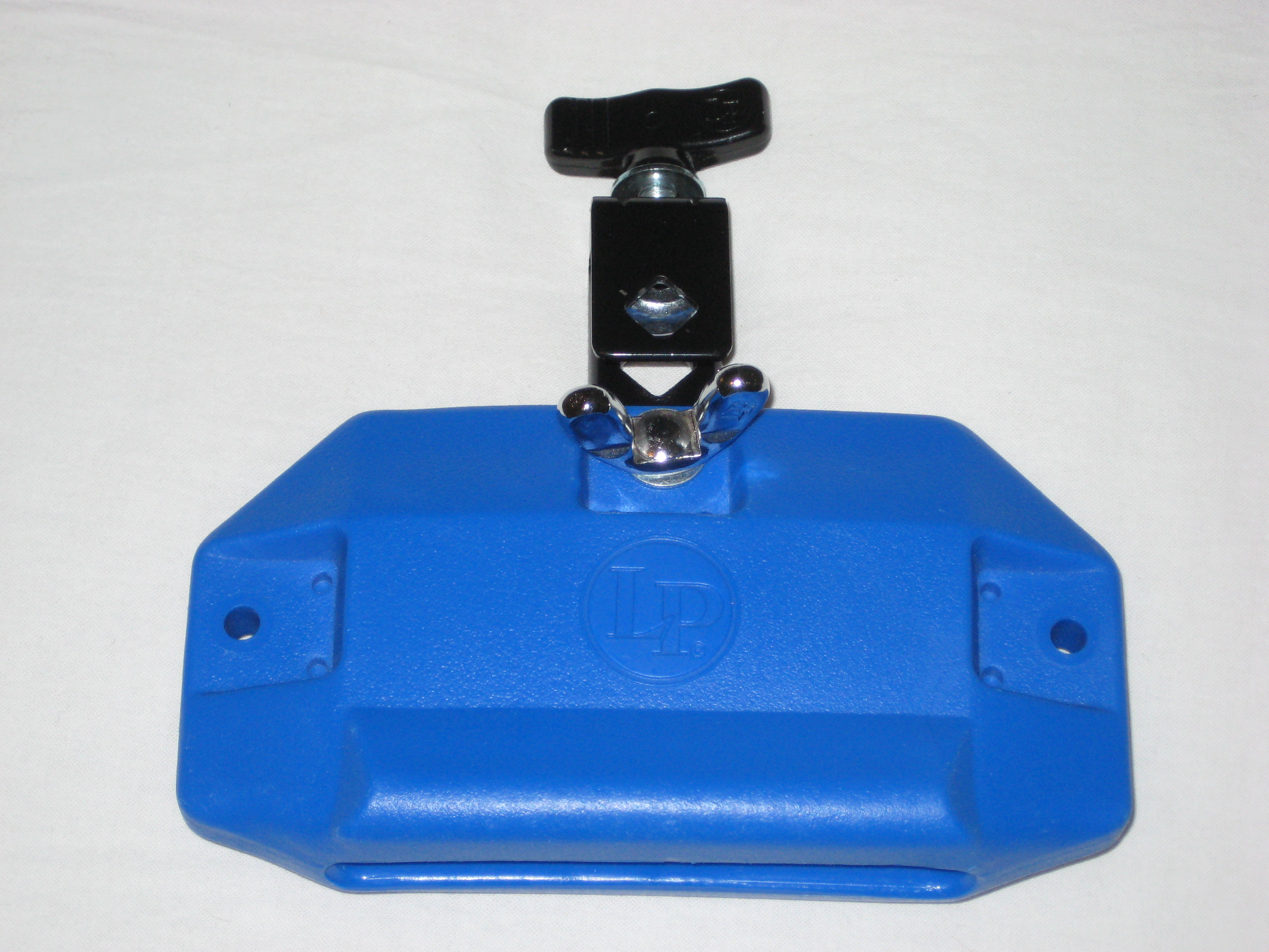 Jam Block on a white background